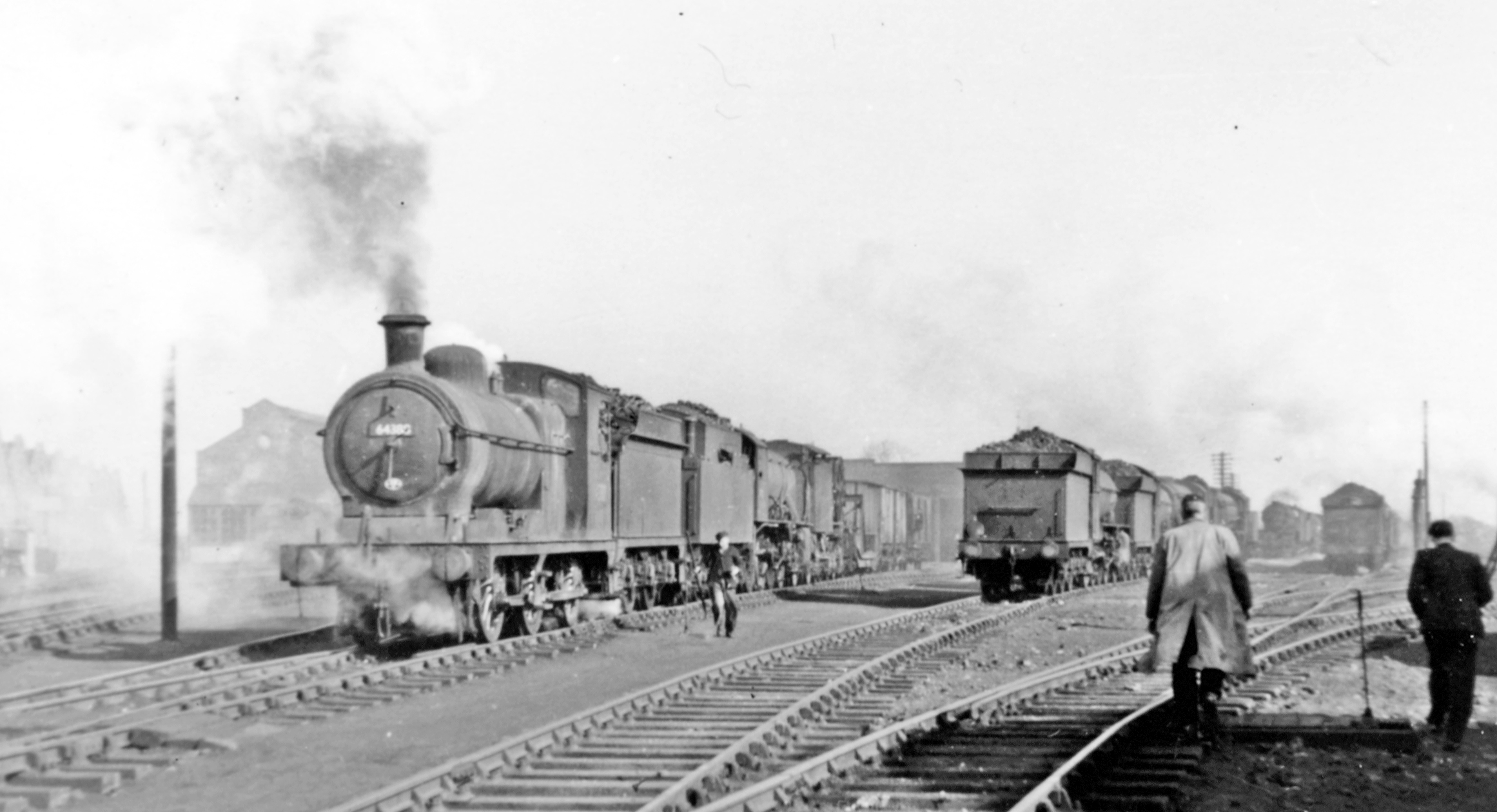 Woodford Halse Locomotive Yard, 1953View NE towards the Shed, with locomotives resting on a Sunday from their normal work at or from the major Woodford Marshalling Yards. These were here on the ex-GCR main line where it threw off its important connection with the ex-GWR system via Banbury. The locomotive on the left, engaged in shunting dead engines, is No. 64388, an ex-GC Robinson class 9J (LNER J11) 0-6-0, built 5/1905 as No. 1080, became LNER No. 61080, then No. 4388 in 1946 and lasted as BR No. 64388 until 1/59. Woodford Depot was closed in June 1965, not long before the whole valuable main line was closed down in September 1966 - 'after Beeching'.